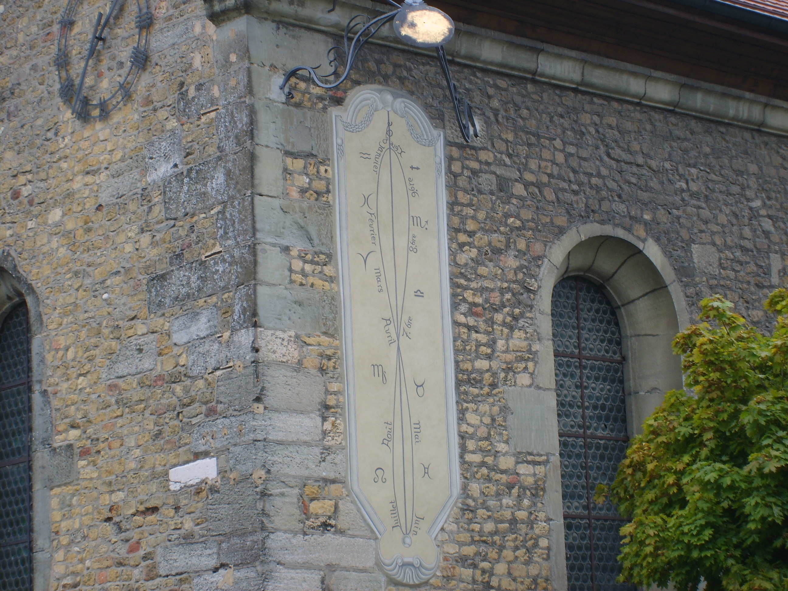 Sundial (analemma) in Avenches (Canton of Vaud) in Switzerland. Publish by= User:Stephane8888 Self made